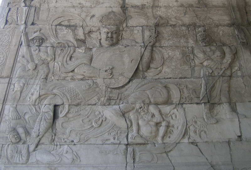 居庸关云台内的天王浮雕(Relievo of the king on the Juyongguan Cloud Platform)